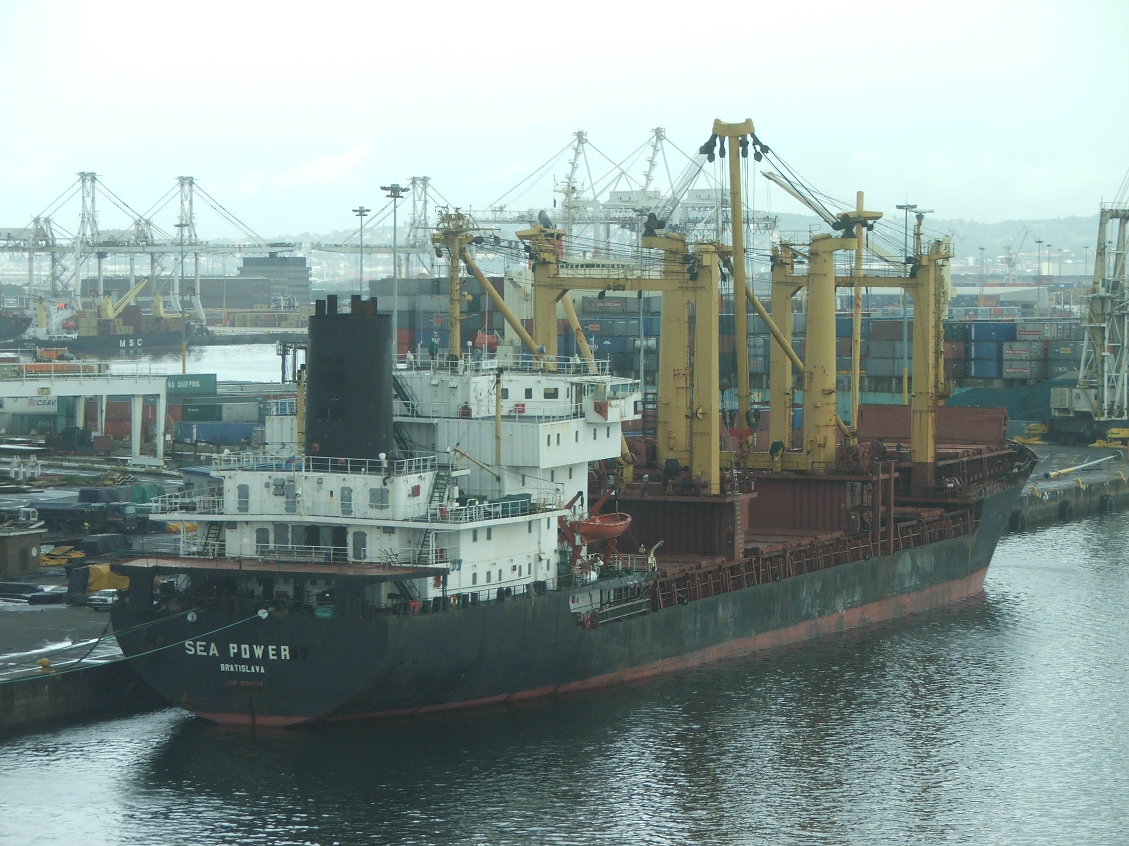 Warnow Type Monsun in Durban